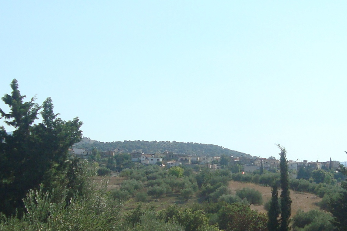 Mazaraki village in Achaia